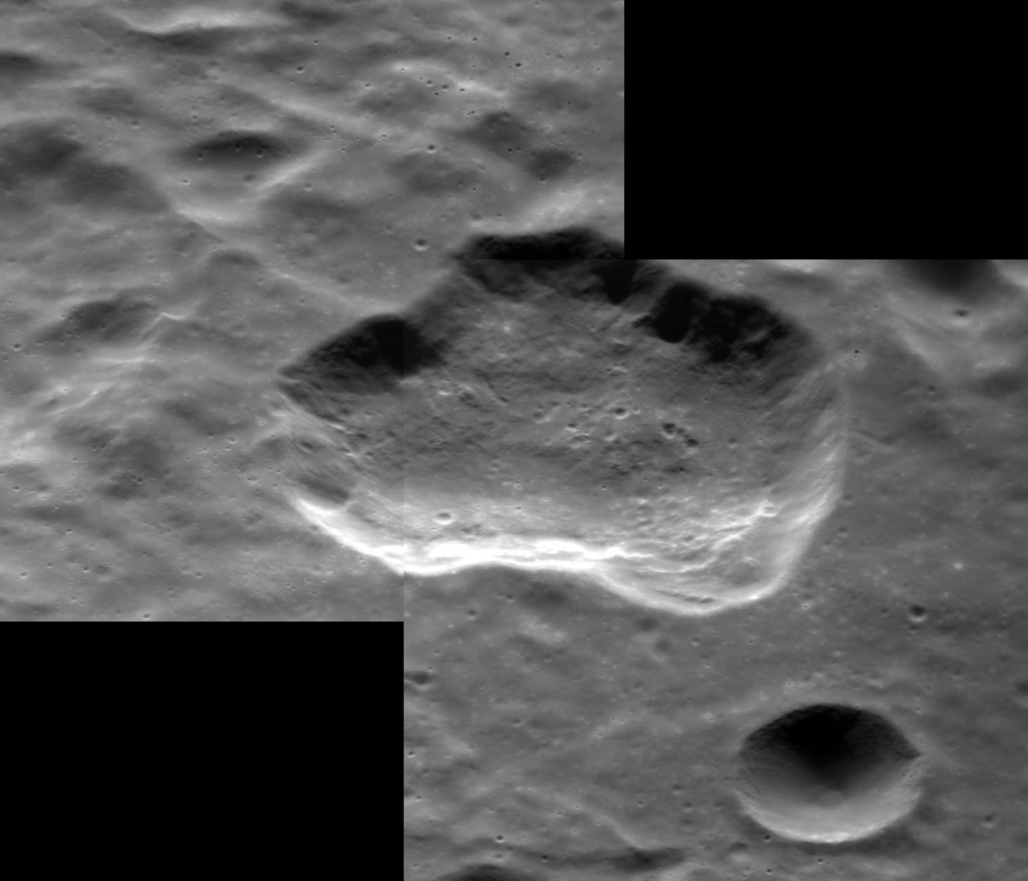 Oblique view of Neidr Facula on Mercury. Mosaic of MESSENGER Narrow Angle Camera images. North is at right. Image width is about 46 km. Statistics for right image (EN0239539037M): Emission Angle: 45.0 Incidence Angle: 63.9 Latitude: 36.3 Longitude: 57.7 Phase Angle: 108.9